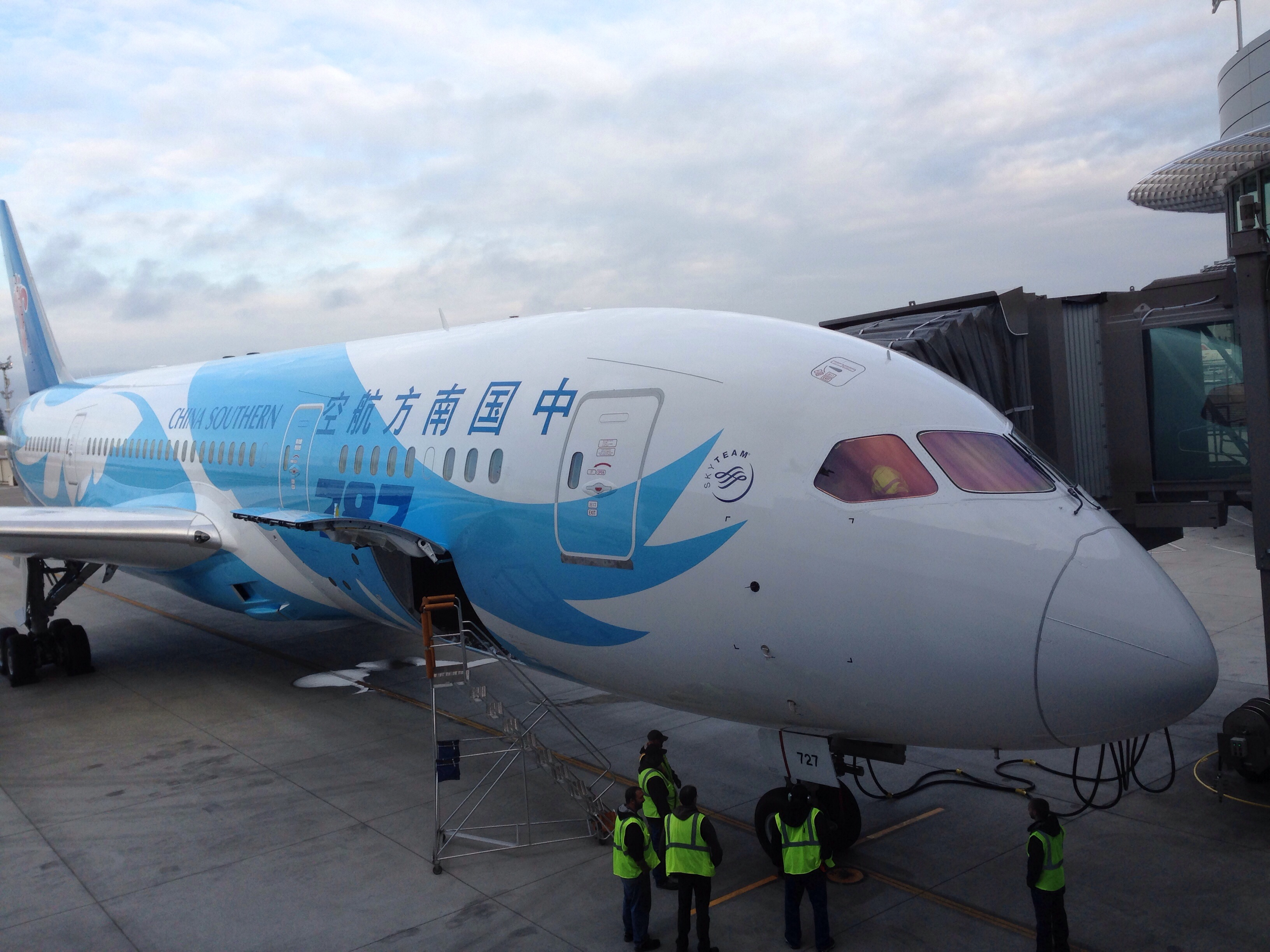 Ready for delivery at the Boeing delivery centre in Everett.